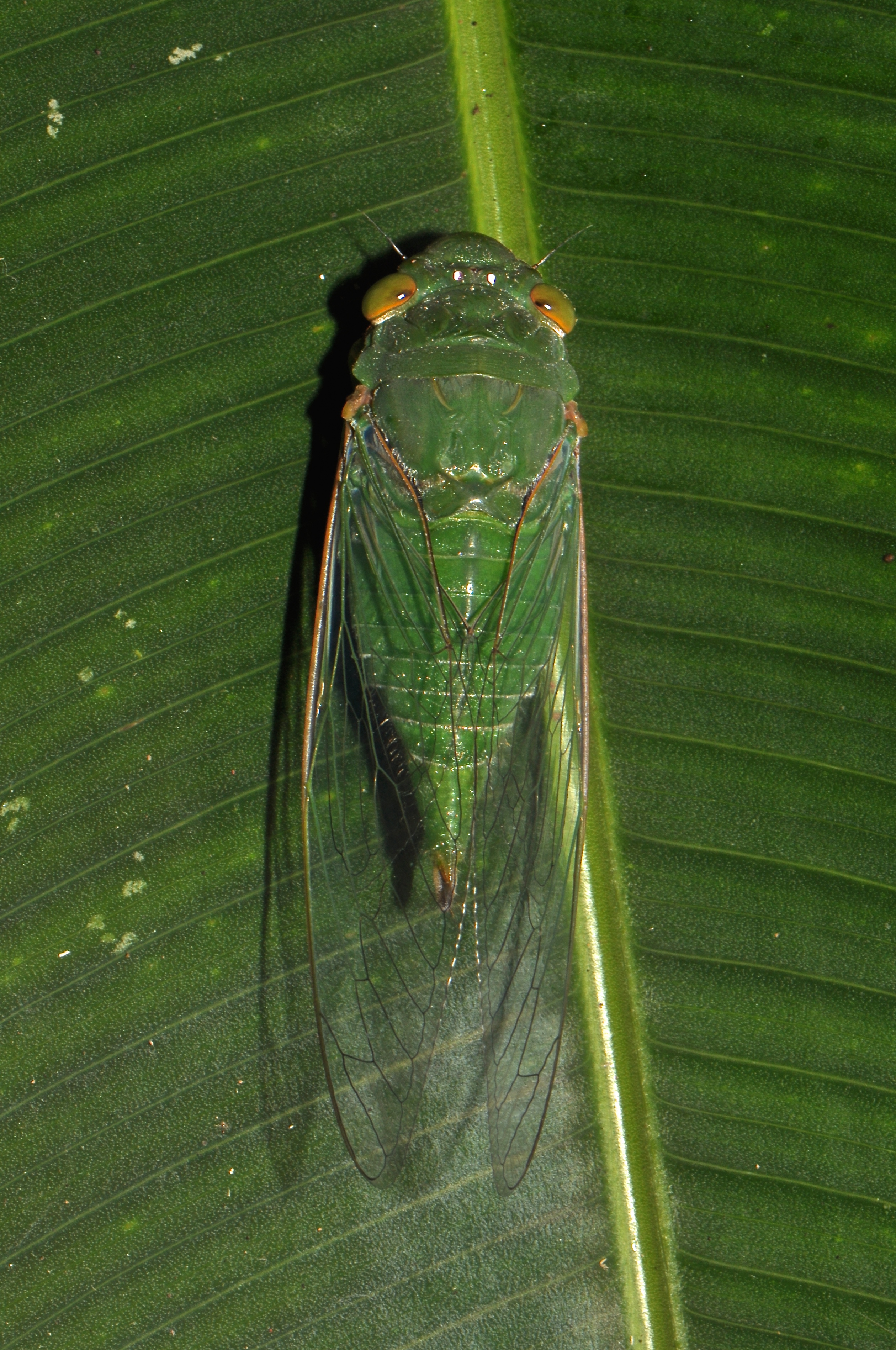 Thanks to David Emery for ID